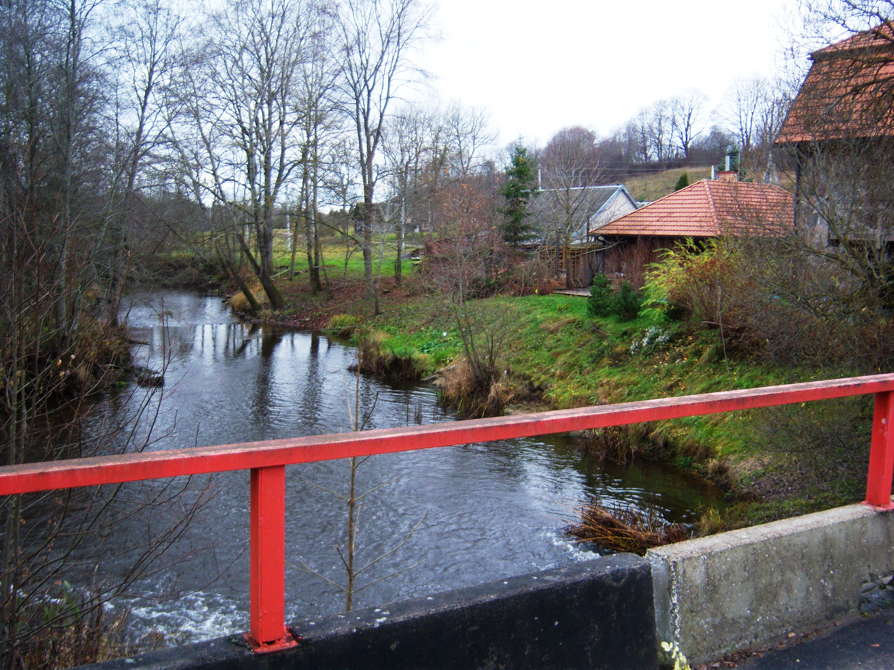 Lėvuo River in Stirniškiai, Kupiškis District, Lithuania